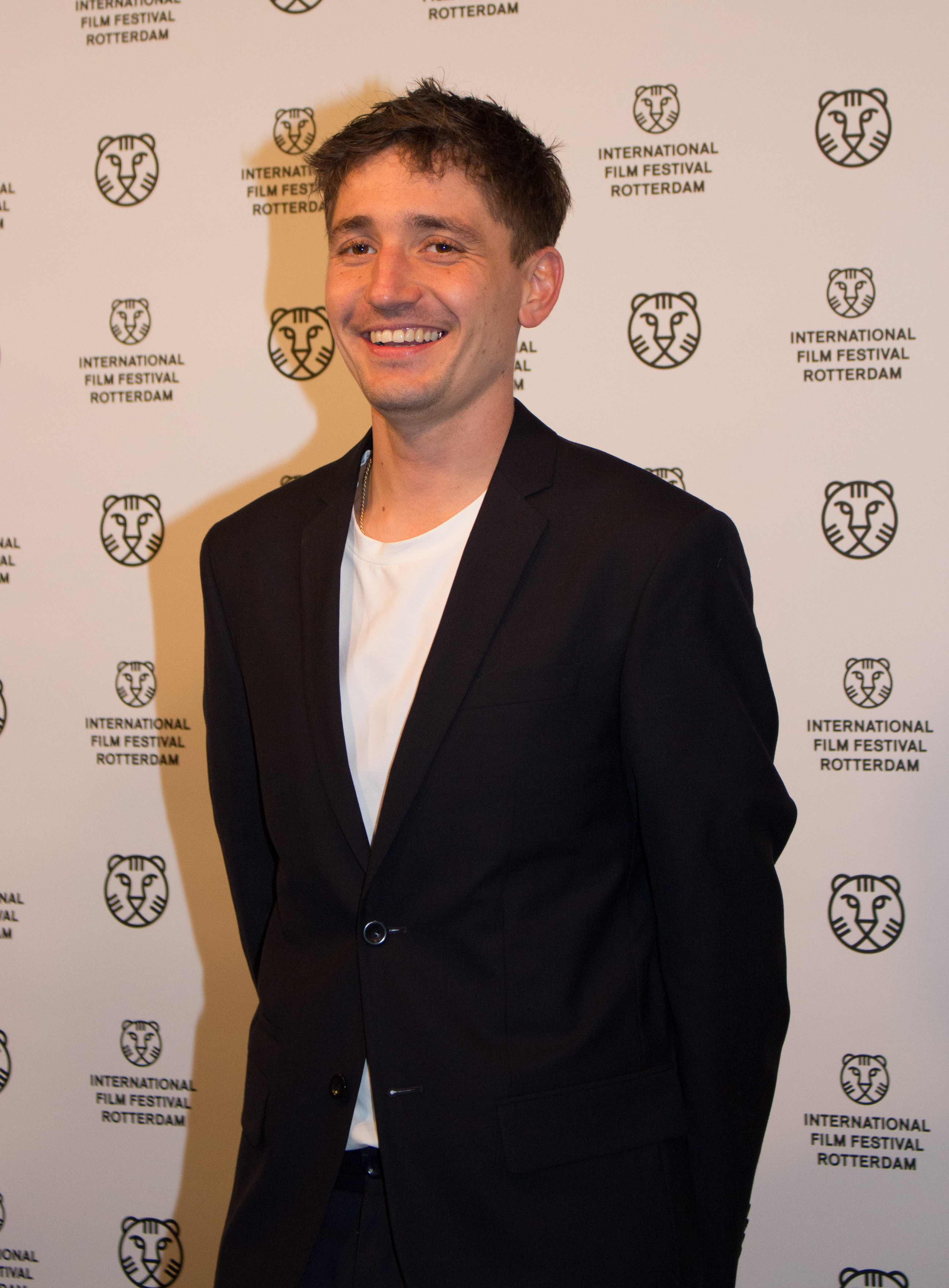 cast & crew of "Paradise Drifter" at the 49th International Film Festival Rotterdam